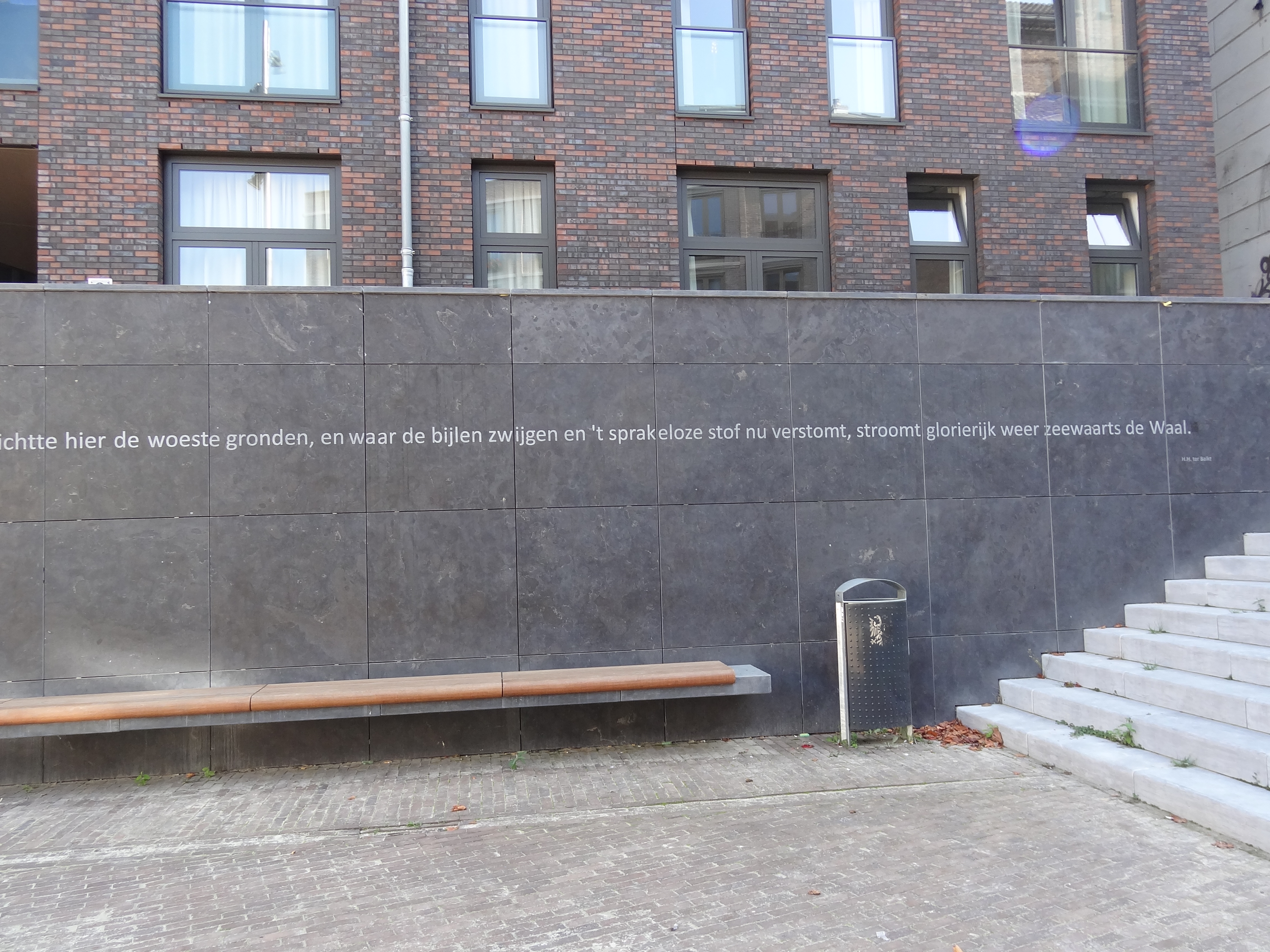 Poem by H.H. ter Balkt at the Gebroeders Van Limburgplein in Nijmegen, The Netherlands